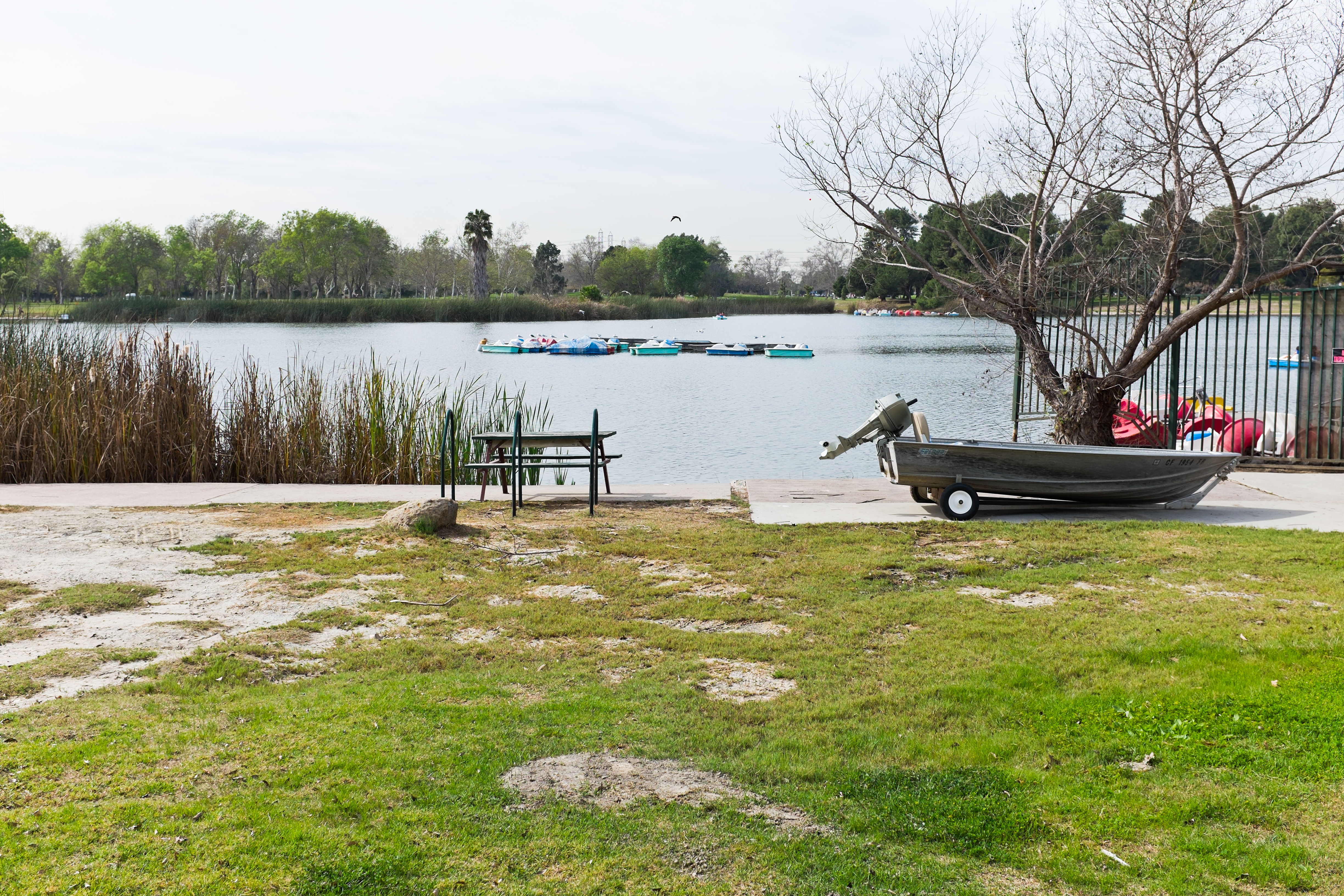 View of North Lake in El Dorado Regional Park.